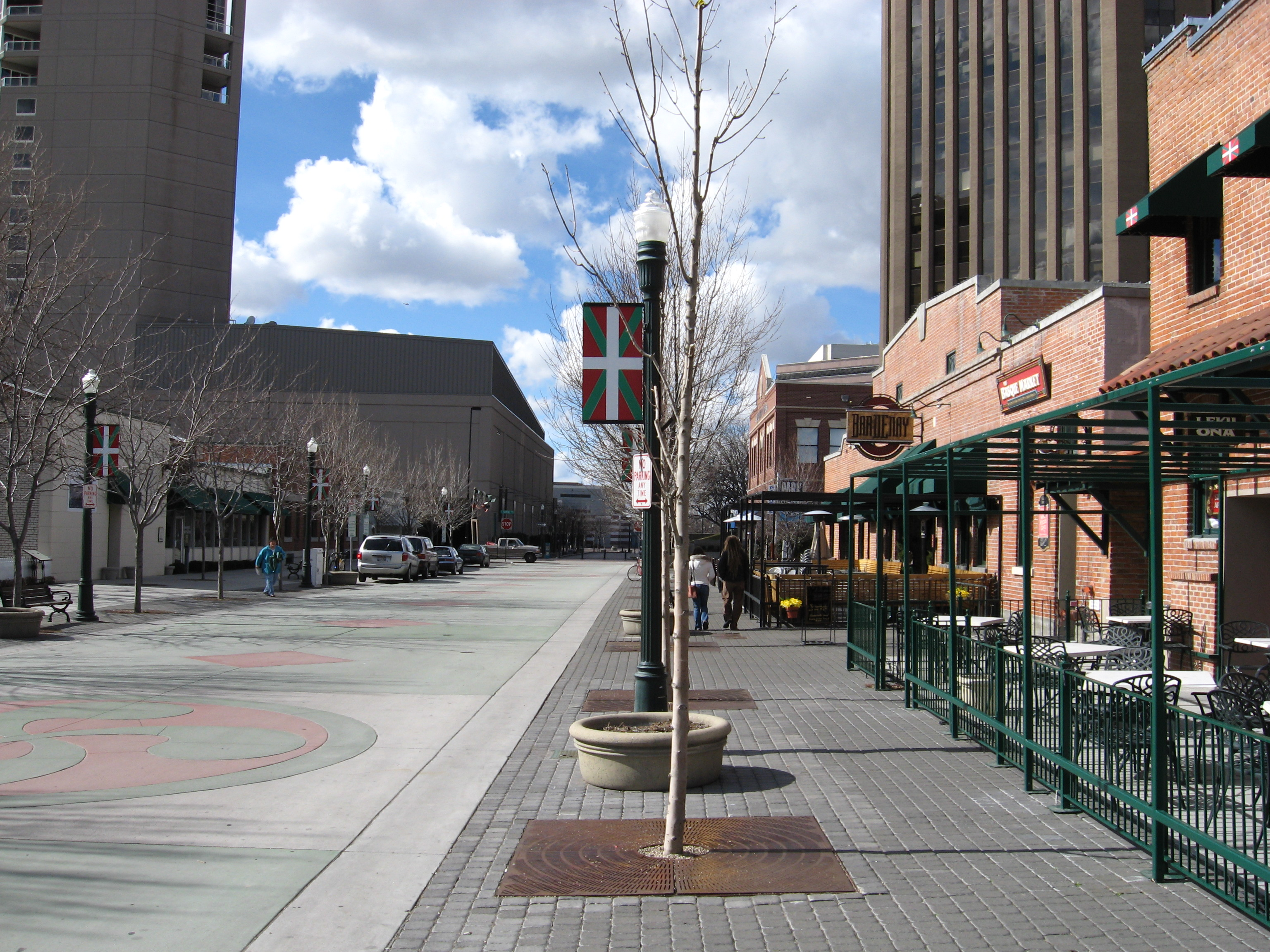 Looking down the Basque Block in Boise towards Capitol Blvd in early spring.